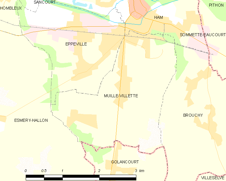 Map of French municipality Muille-Villette